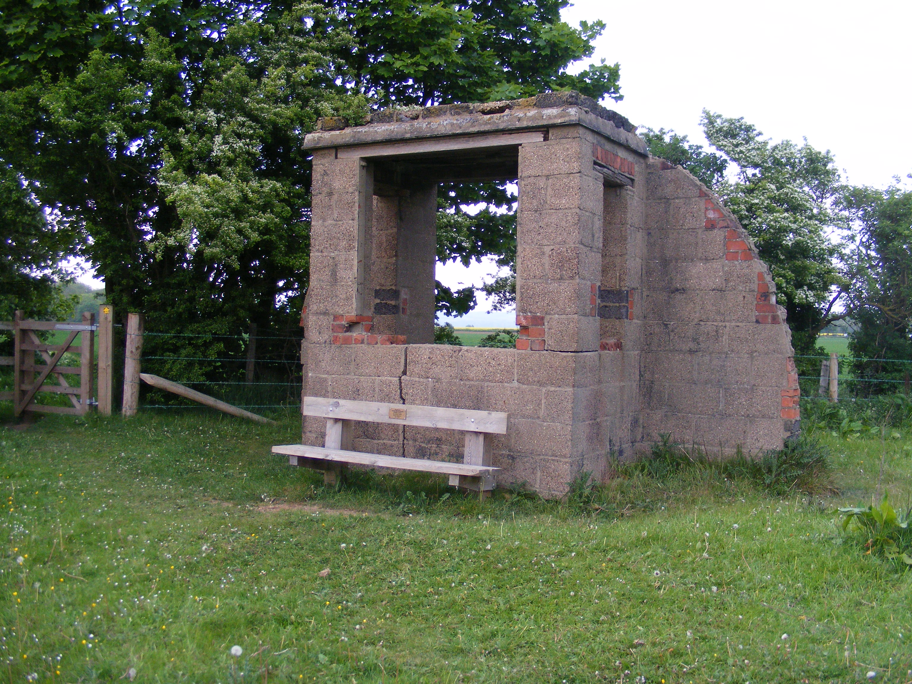 One of two observation posts used for triangulation of test bombings on the WWII bombing range on Alkborough Flats